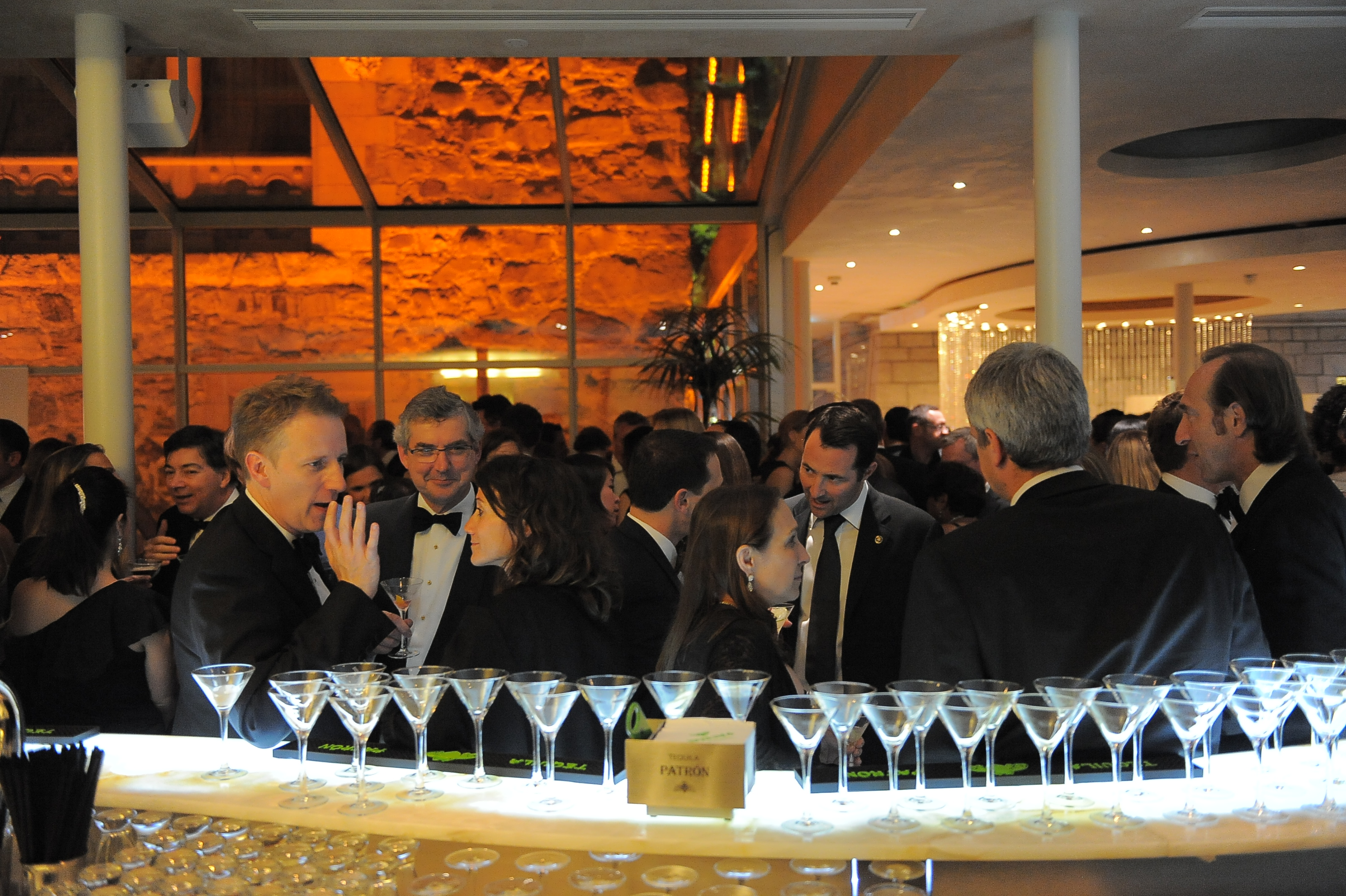 The cocktail bar at the after party courtesy of Patrón